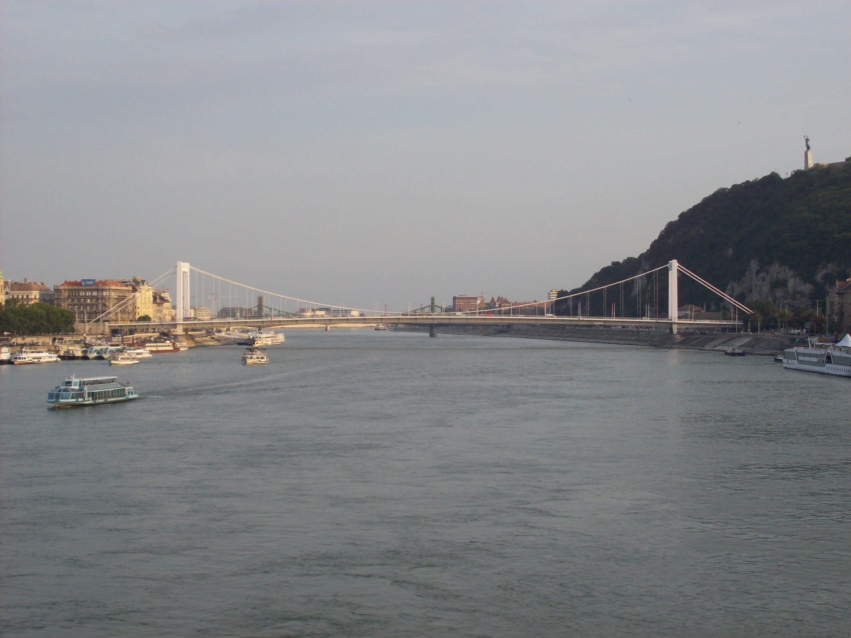 Elisabeth Bridge, Budapest, Hungary